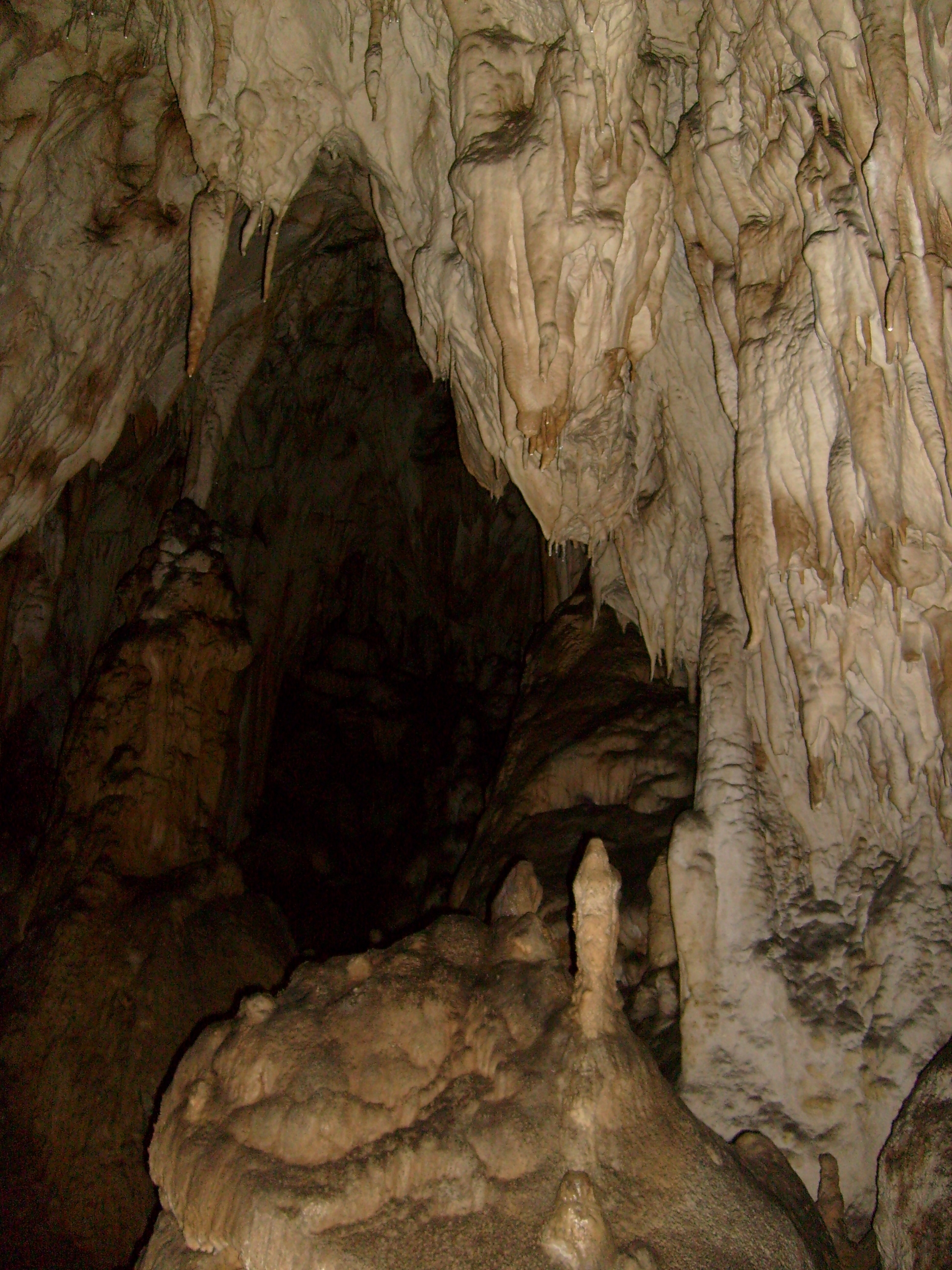 Vârtop Cave.